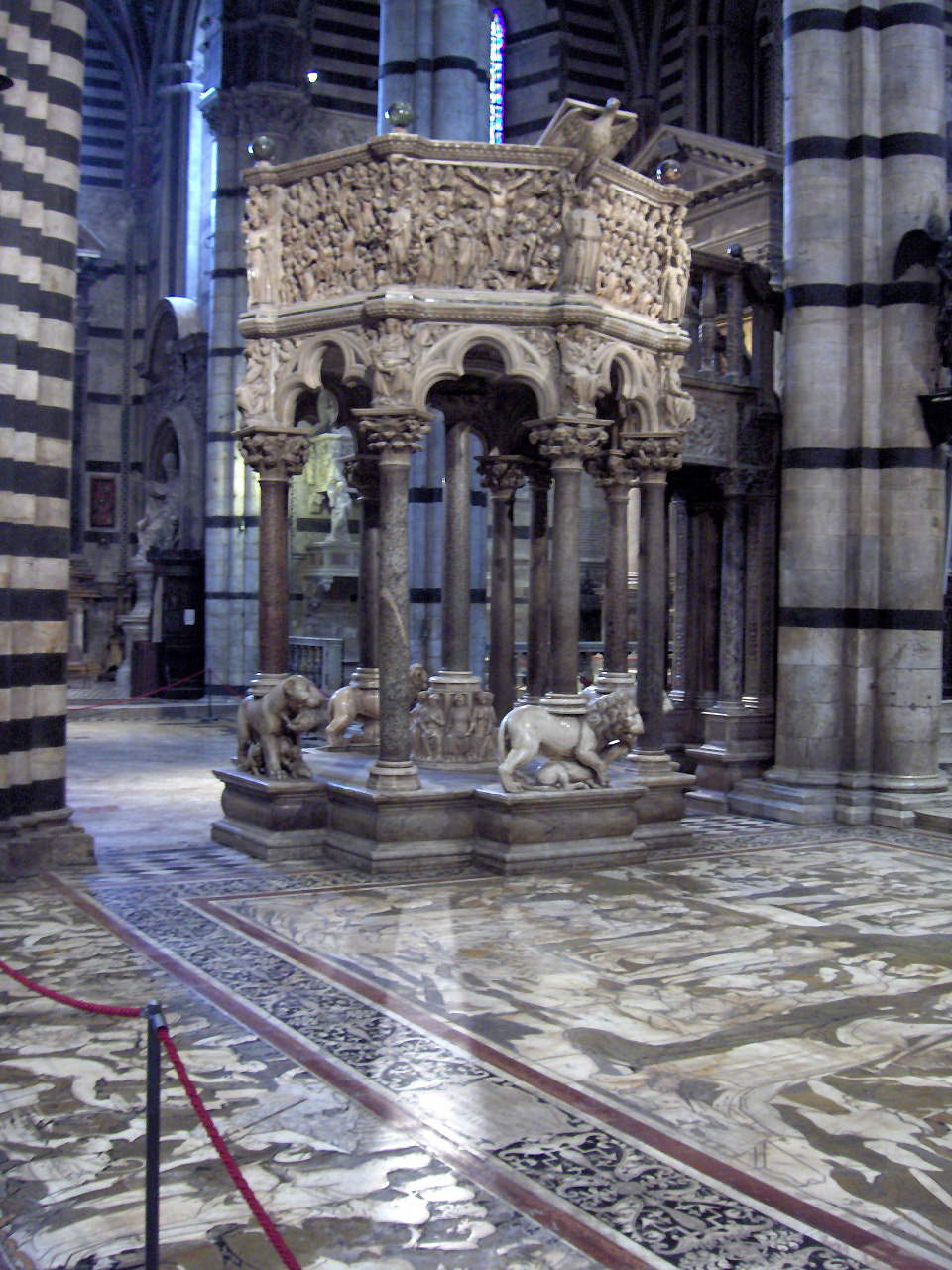 Pulpit by Nicola Pisano; Duomo; Siena, Italy Own photo - photo made on 11 October 2005